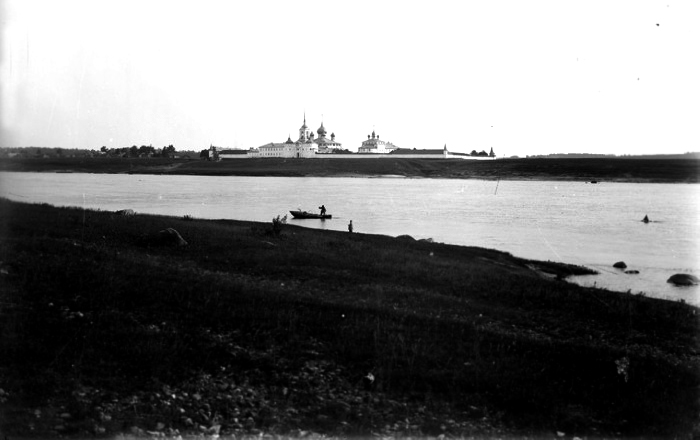 Pokrov male monastery in Uglich, 1903